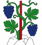 Flag of Rebstein, Canton of St. Gallen, SwitzerlandEsperanto: Flago de Rebstein, Kantono de Sankt-Galo, Svislando